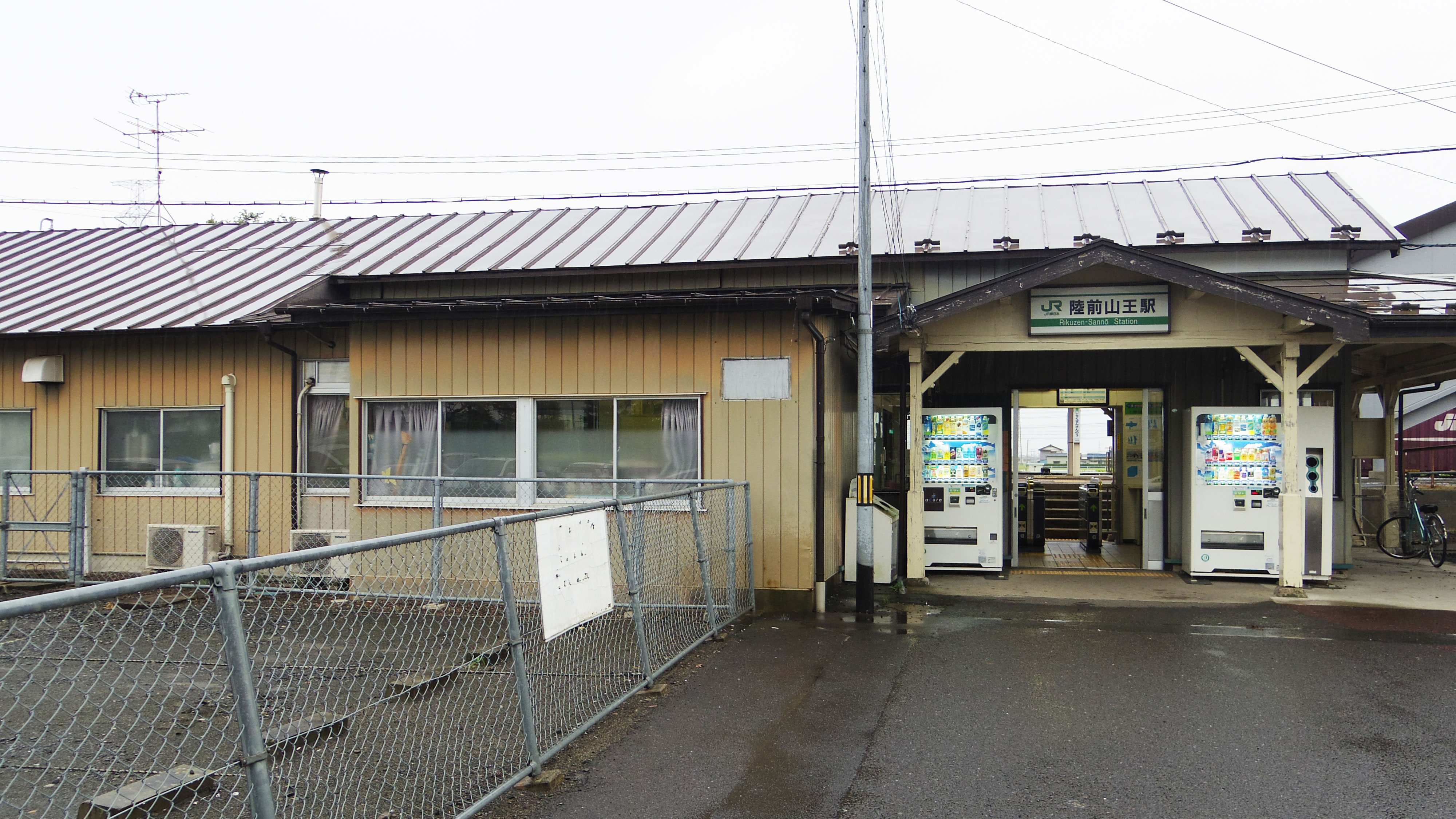 The building of Rikuzen-Sannō Station on the Tōhoku Main Line